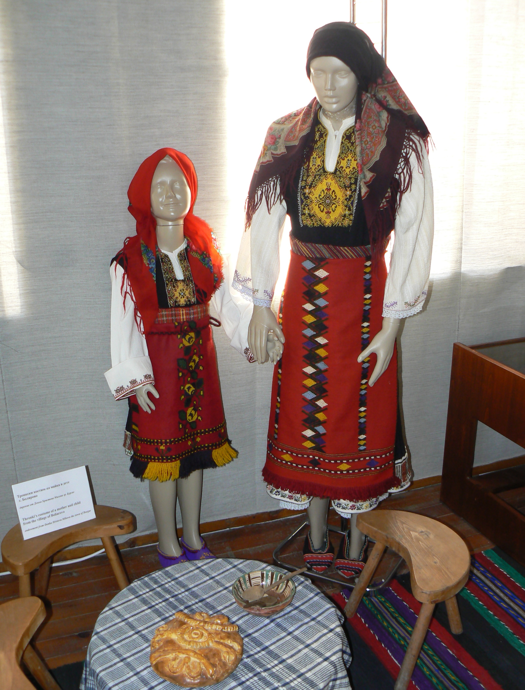 Folk costumes of tronki (ethnographic group in Strandja), exhibits of the Burgas ethnographic museum